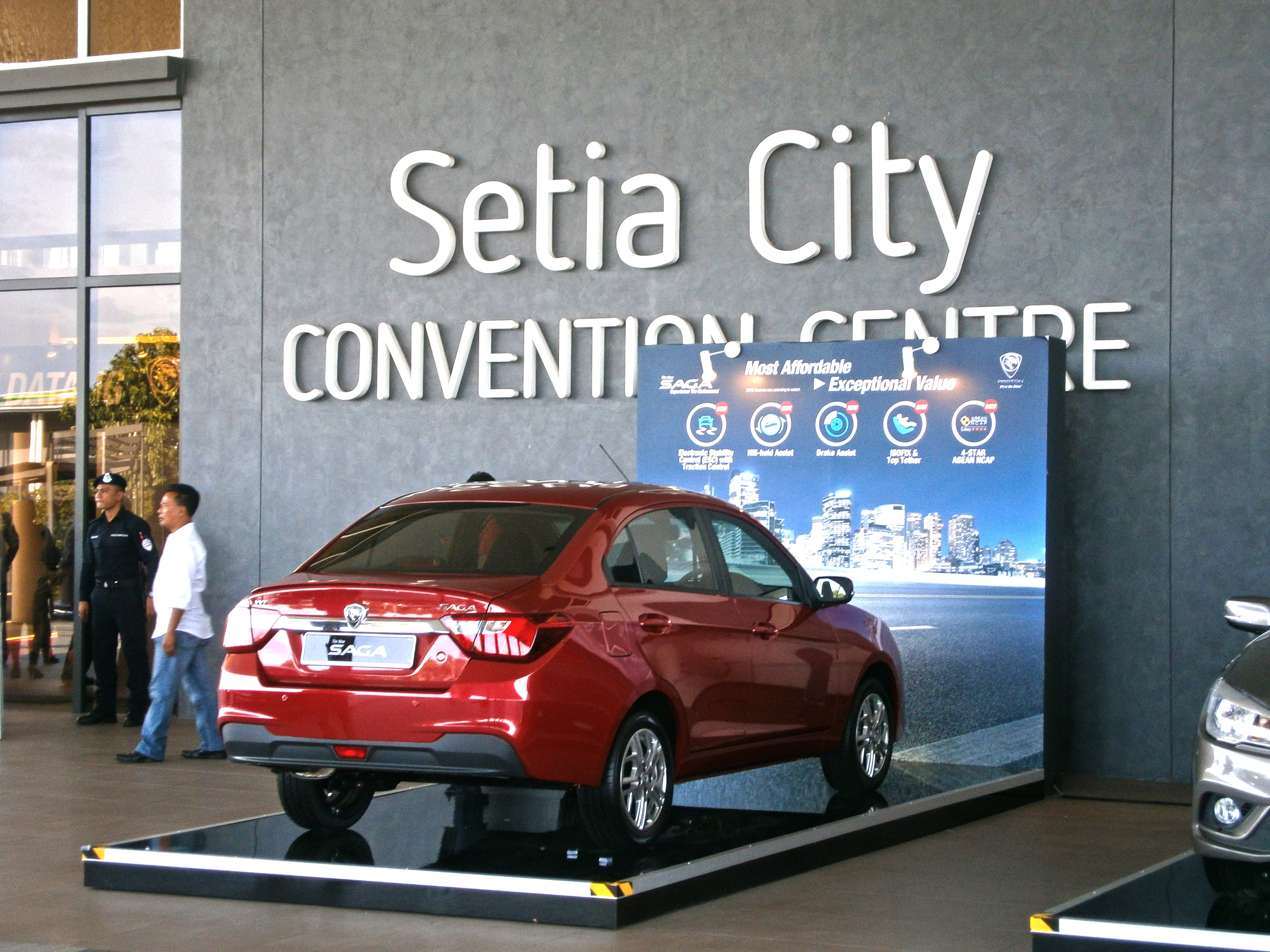 I must say, the rear design of the new Saga is stunning. It makes the car look more expensive than it really is. Proton Design has well and truly surprised here !